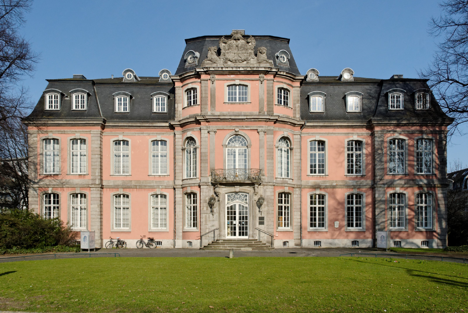 Schloss Jägerhof, Jacobistraße 2 in Düsseldorf-Pempelfort, Germany This is a photograph of an architectural monument.